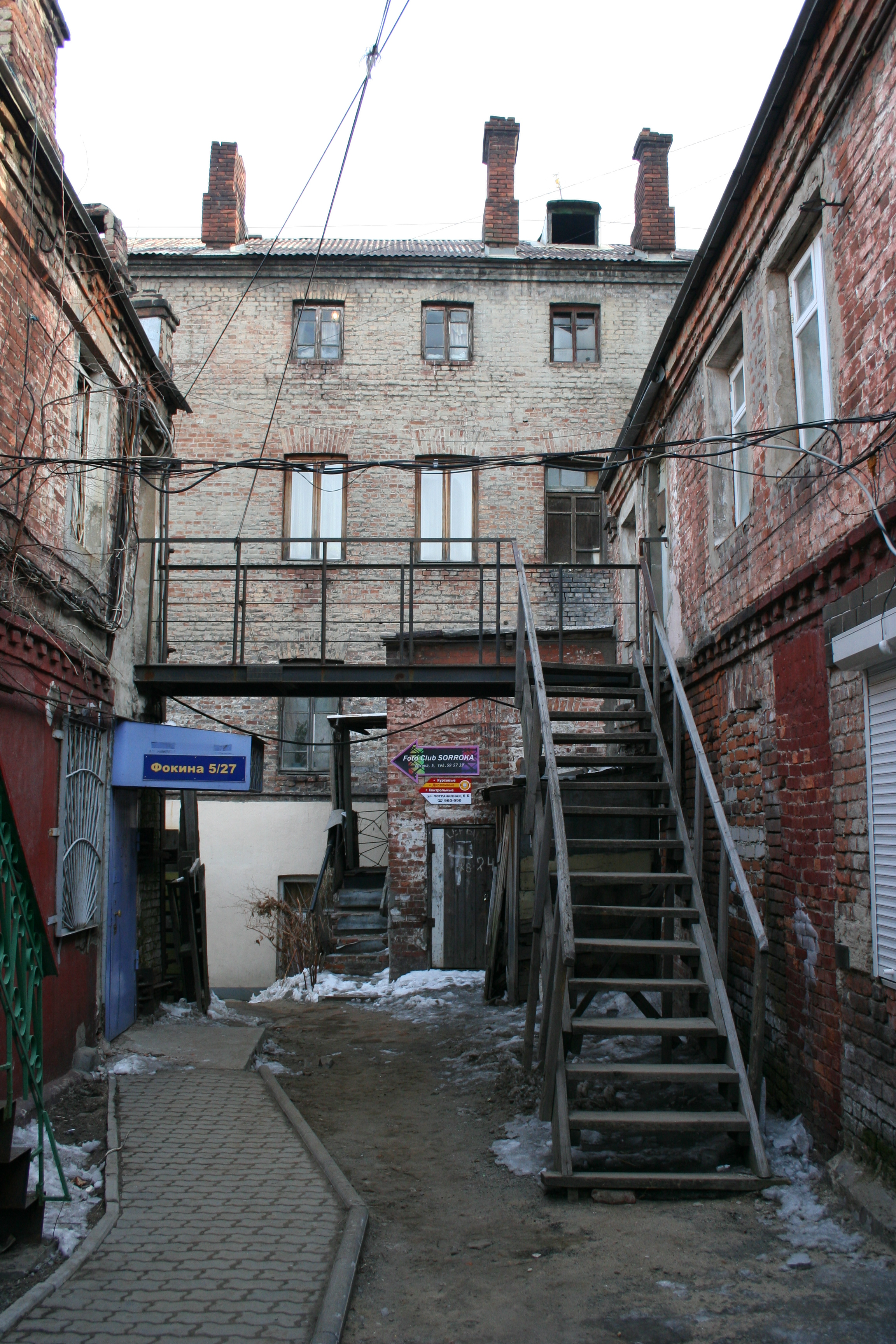 An inner-yard (Admirala Fokina St.,5) of former Millionka in Vladivostok, Russia. Historically Millionka was the local china-town and the biggest center of crime activity